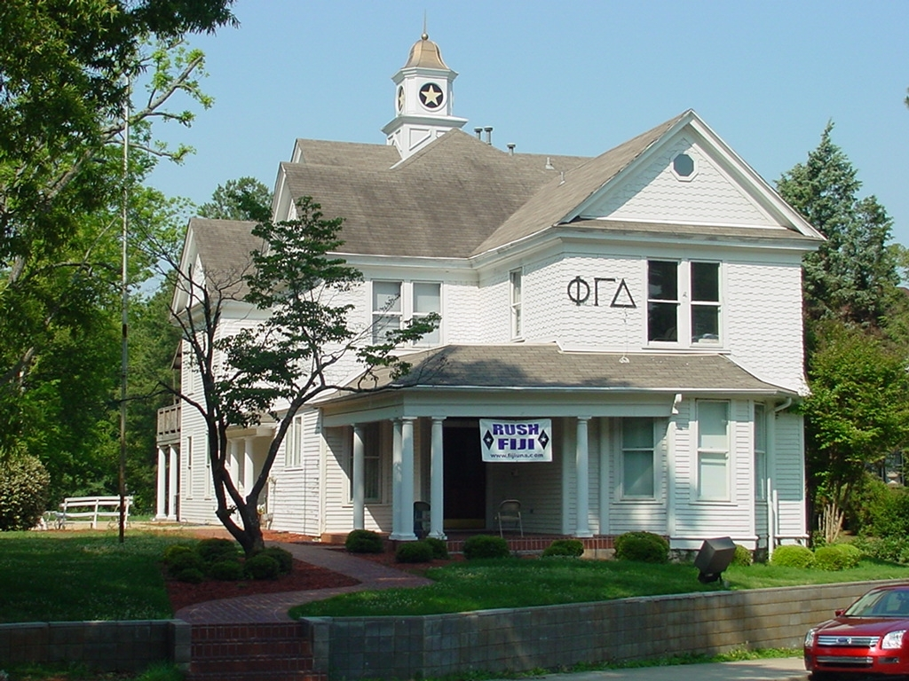 Taken by me on University of North Alabama Campus, May 22, 2007.